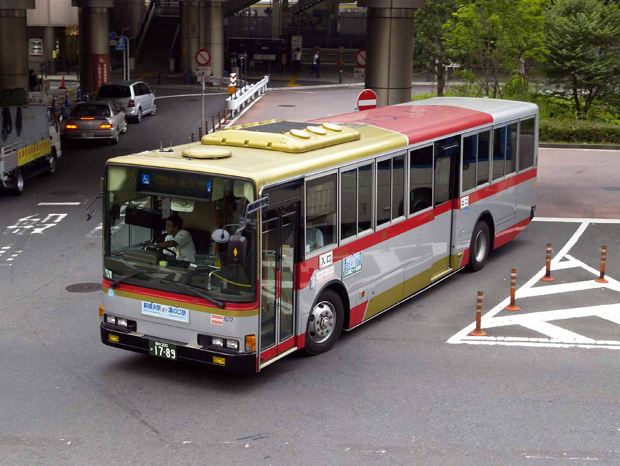 Fleet of Tokyu Bus, operating for Shin-Yokohama and Mizonokuchi Line. Model: Mitsubishi Fuso Aero Star KL-MP35J License plate: KNY200 KA1789 Place: Mizonokuchi station, Takatsu ward, Kawasaki city, Kanagawa Japan